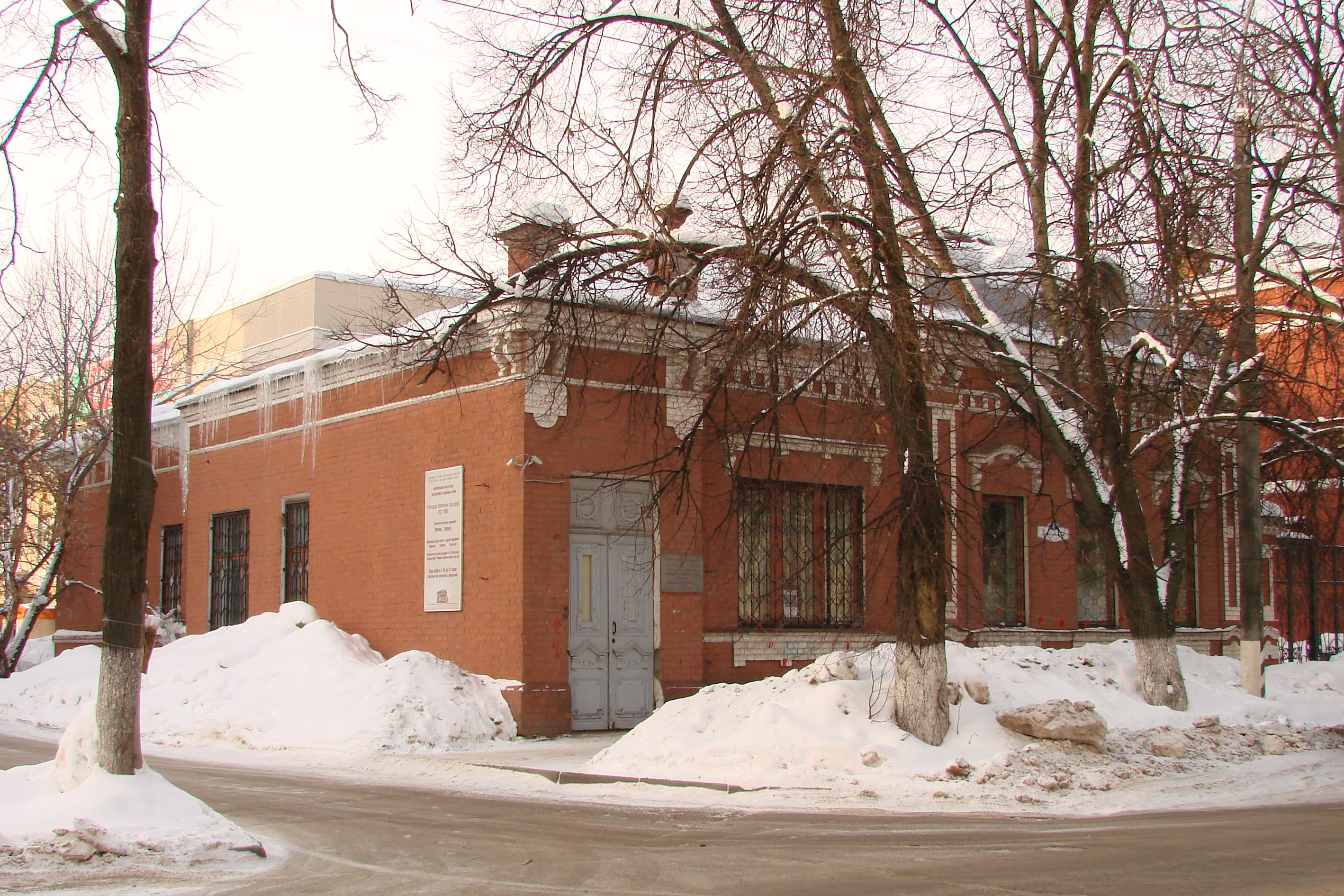 Russia, Vologda, Alexander Panteleyev Memorial Workshop